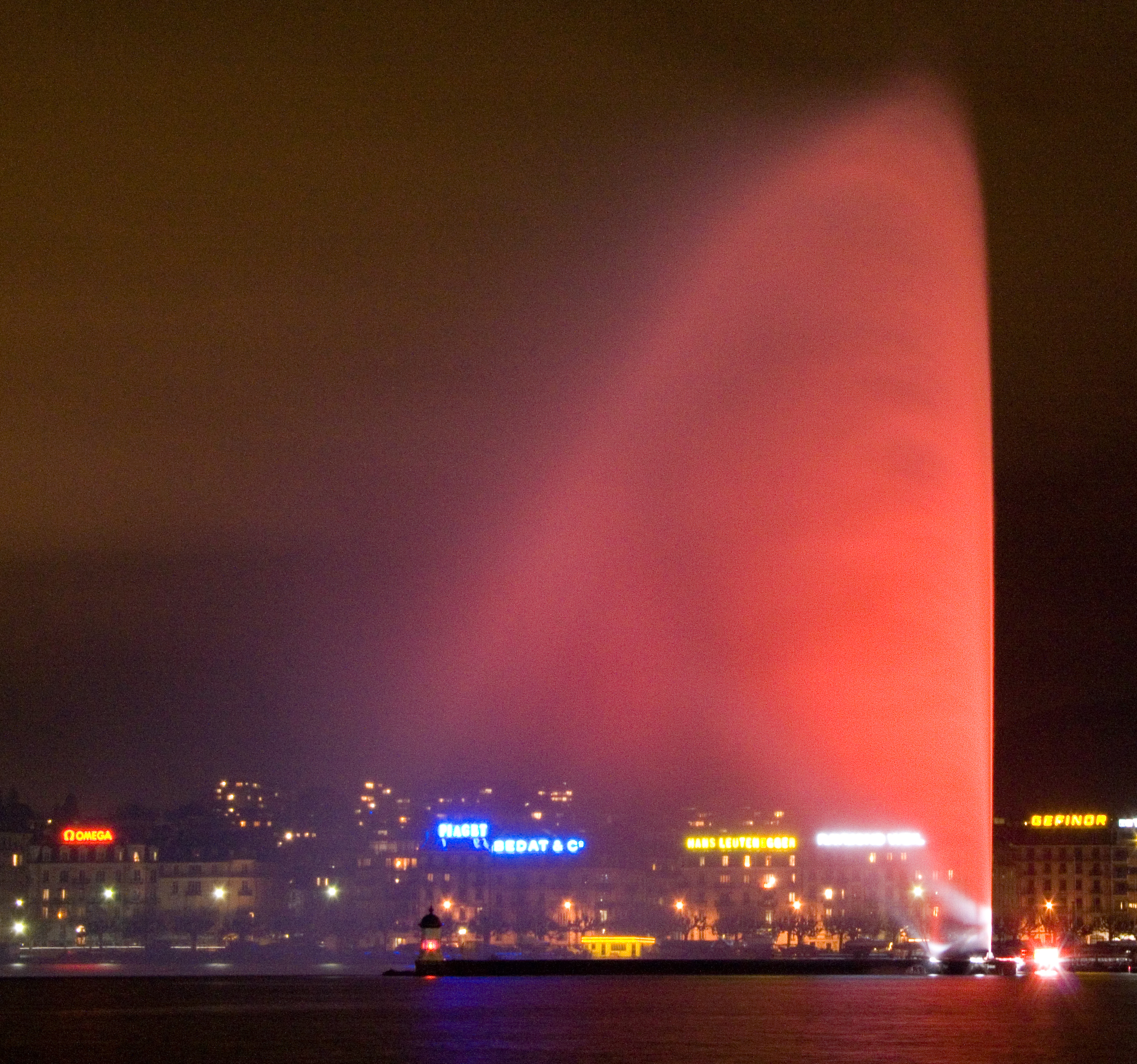 Genève fontain by night